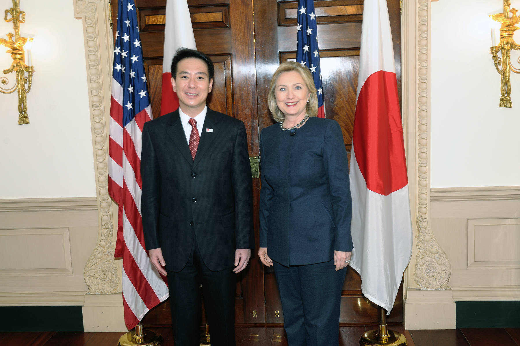 U.S. Secretary of State Hillary Rodham Clinton hosts a bilateral meeting with Japanese Foreign Seiji Maehara in the Deputy Secretary’s Conference Room at the U.S. Department of State in Washington, D.C., on January 6, 2011. [State Department photo/ Public Domain]